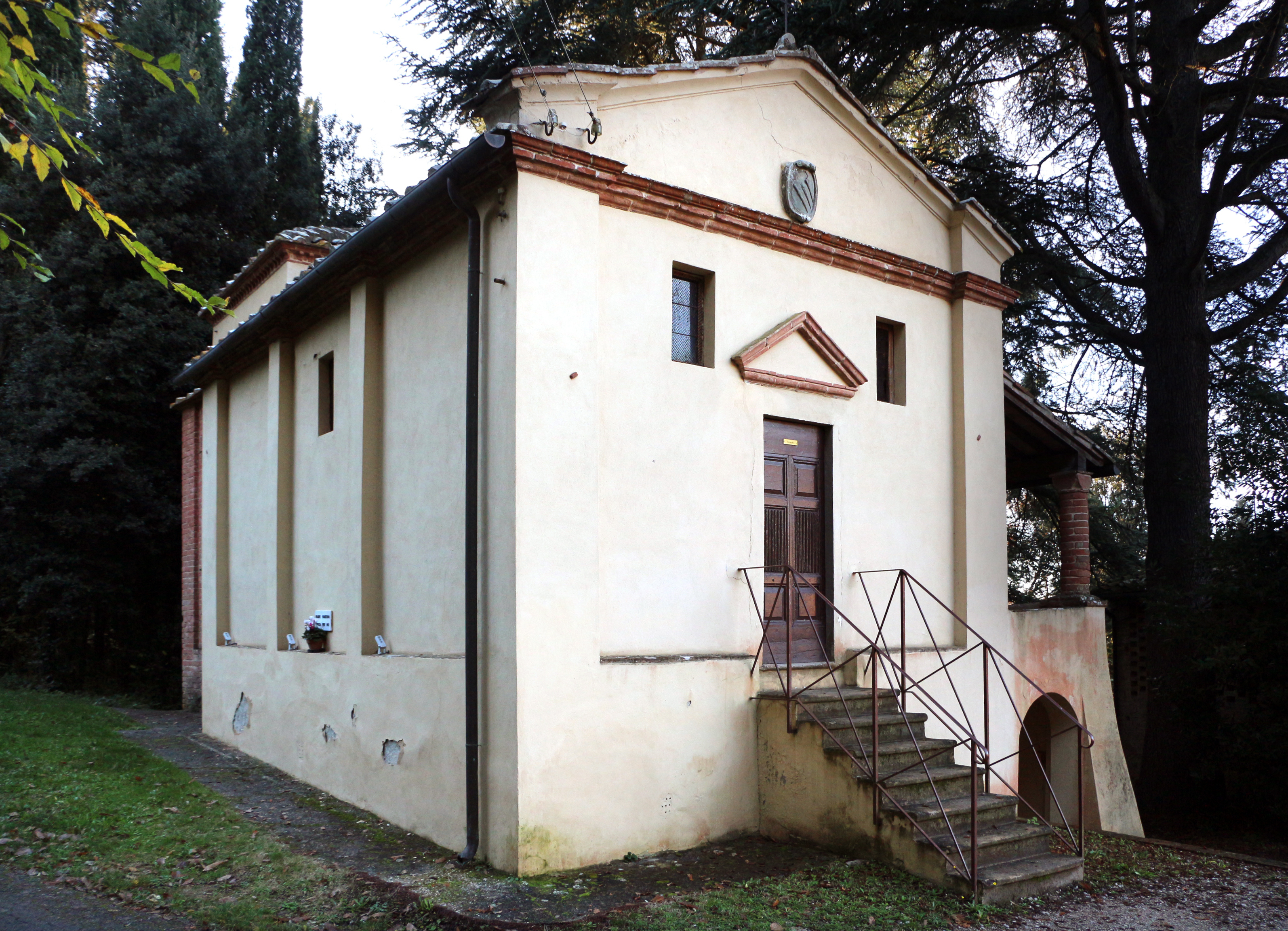 San Vivaldo Sacro Monte